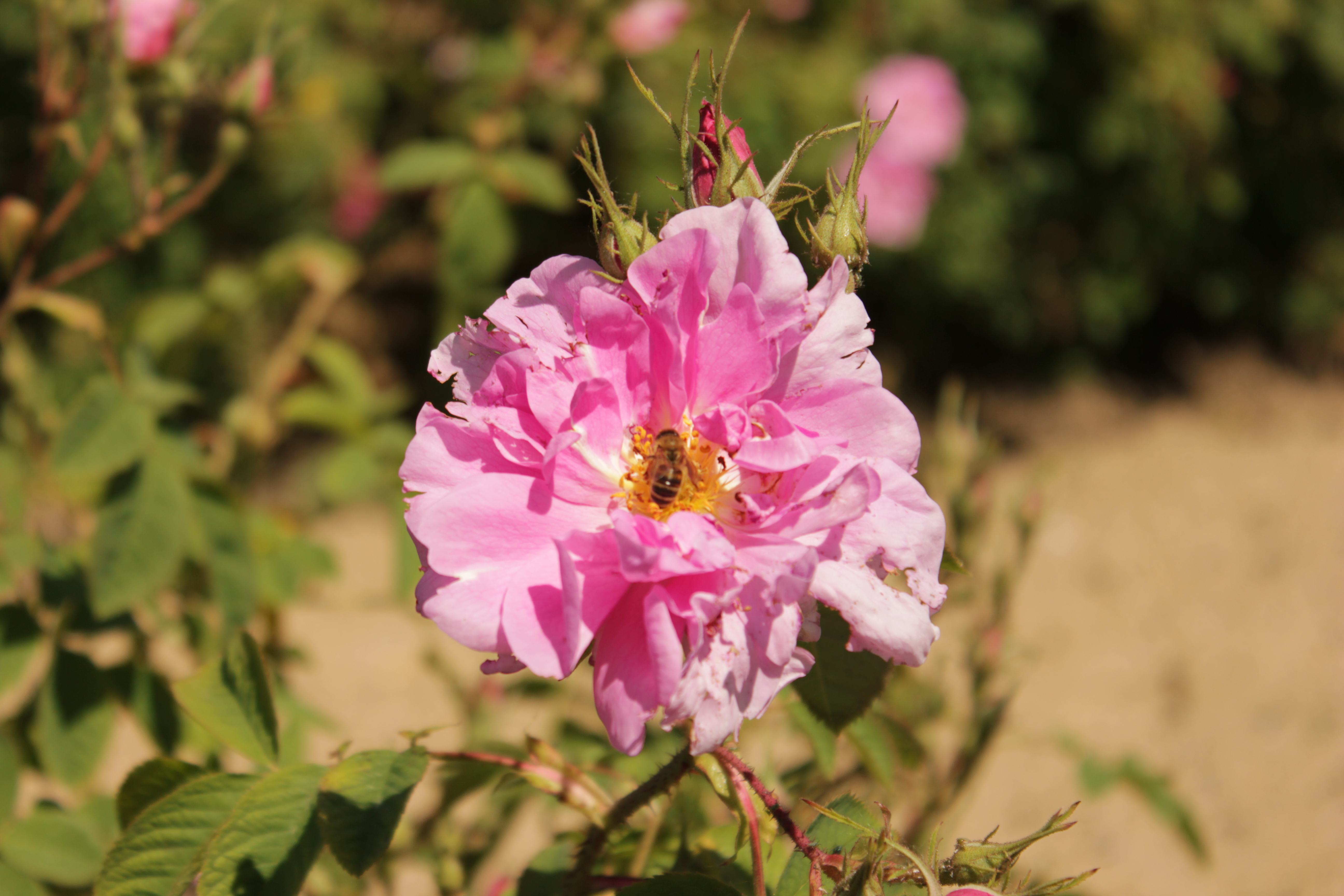 Organic Bulgarian Rose (Rosa Damascena Rose Otto)